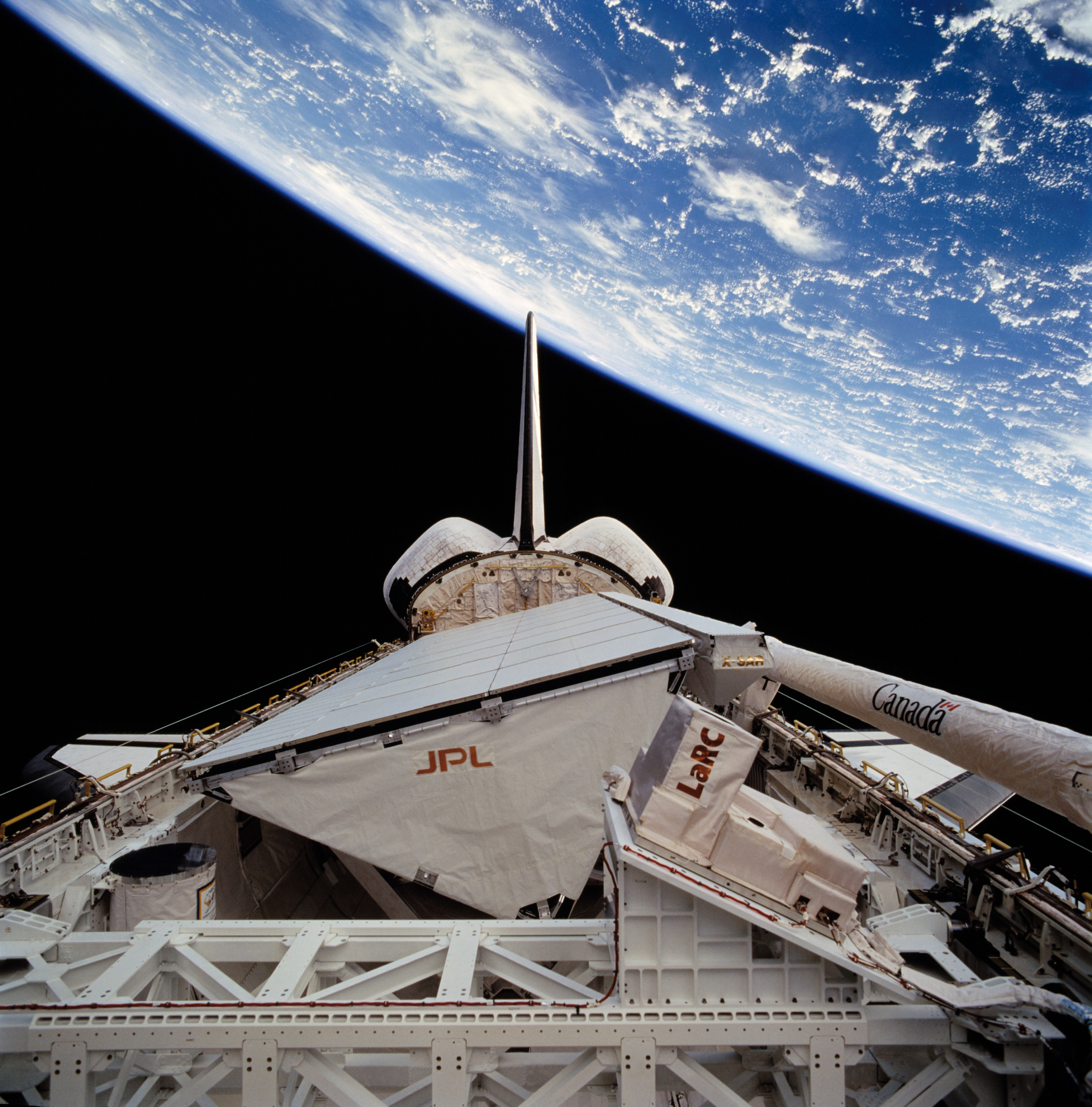 The darkness of space forms the backdrop for this scene of the Space Shuttle Endeavour's cargo bay, 115 nautical miles above a cloud covered Indian Ocean. The Space Radar Laboratory (SRL-2) Multipurpose Experiment Support Structure (MPESS) is seen at bottom frame. Also partially seen are other experiments including other components of the primary payload. They are the antenna for the Spaceborne Imaging Radar (SIR-C), the X-band Synthetic Aperture Radar (X-SAR), the device for Measurement of Air Pollution from Satellites (MAPS) and some Getaway Special (GAS) canisters.